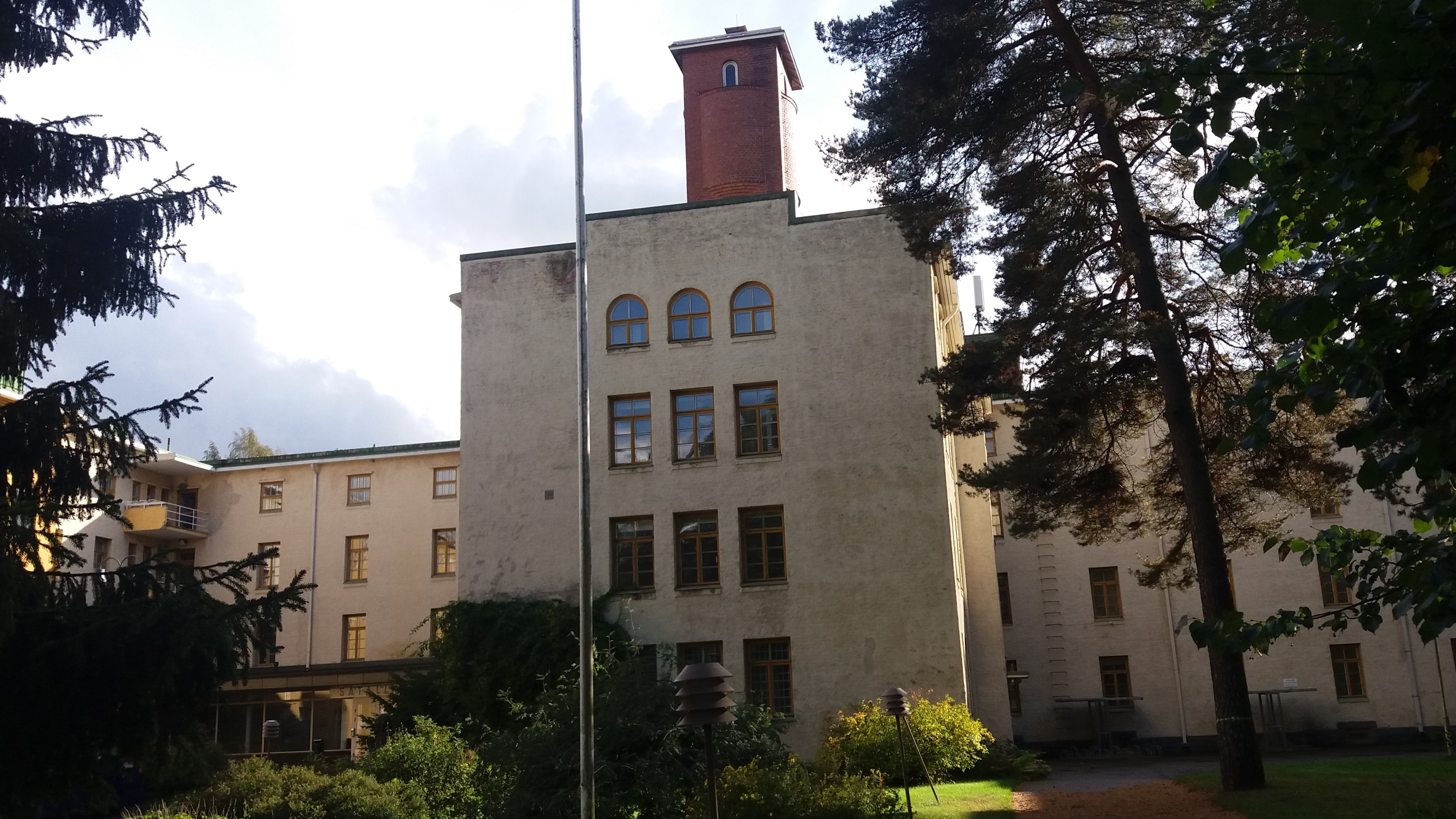 Satalinna hospital, Harjavalta, Finland. Architect Onni Tarjanne 1925.